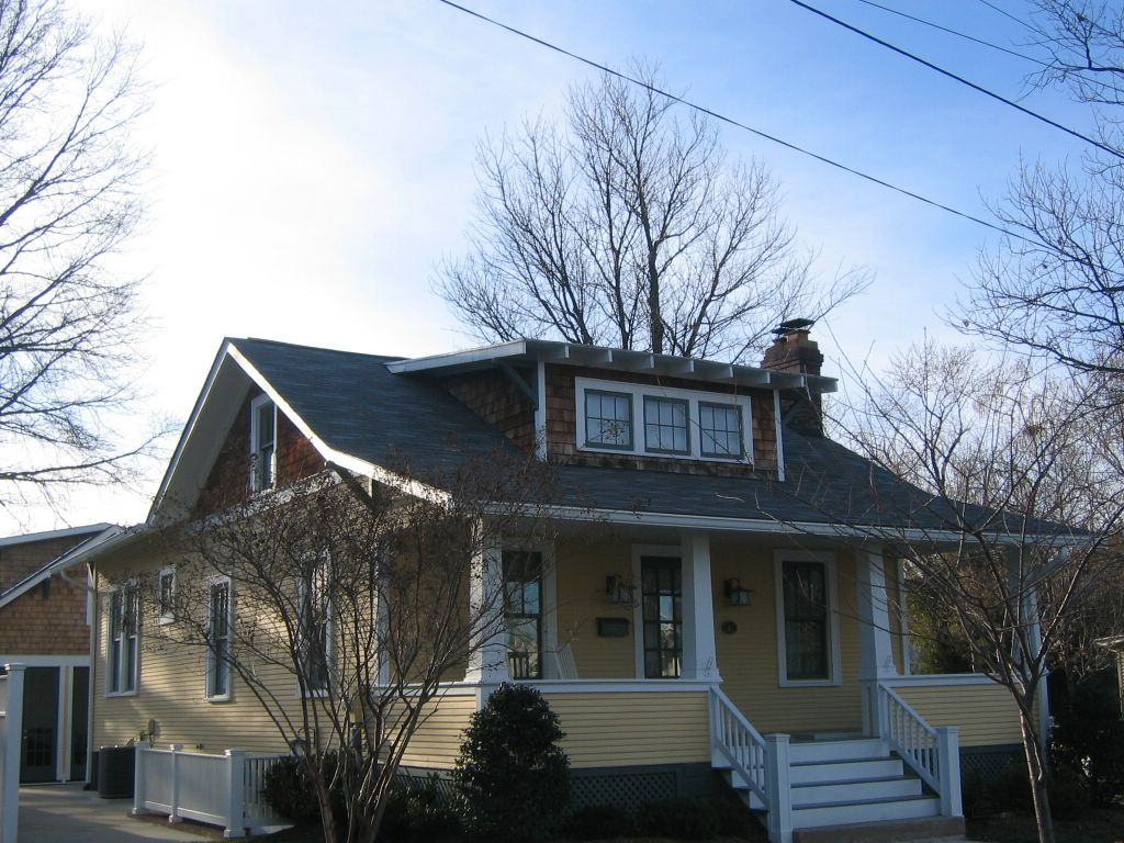 An example of a California-style bungalow in the Del Ray neighborhood of Alexandria, Virginia.